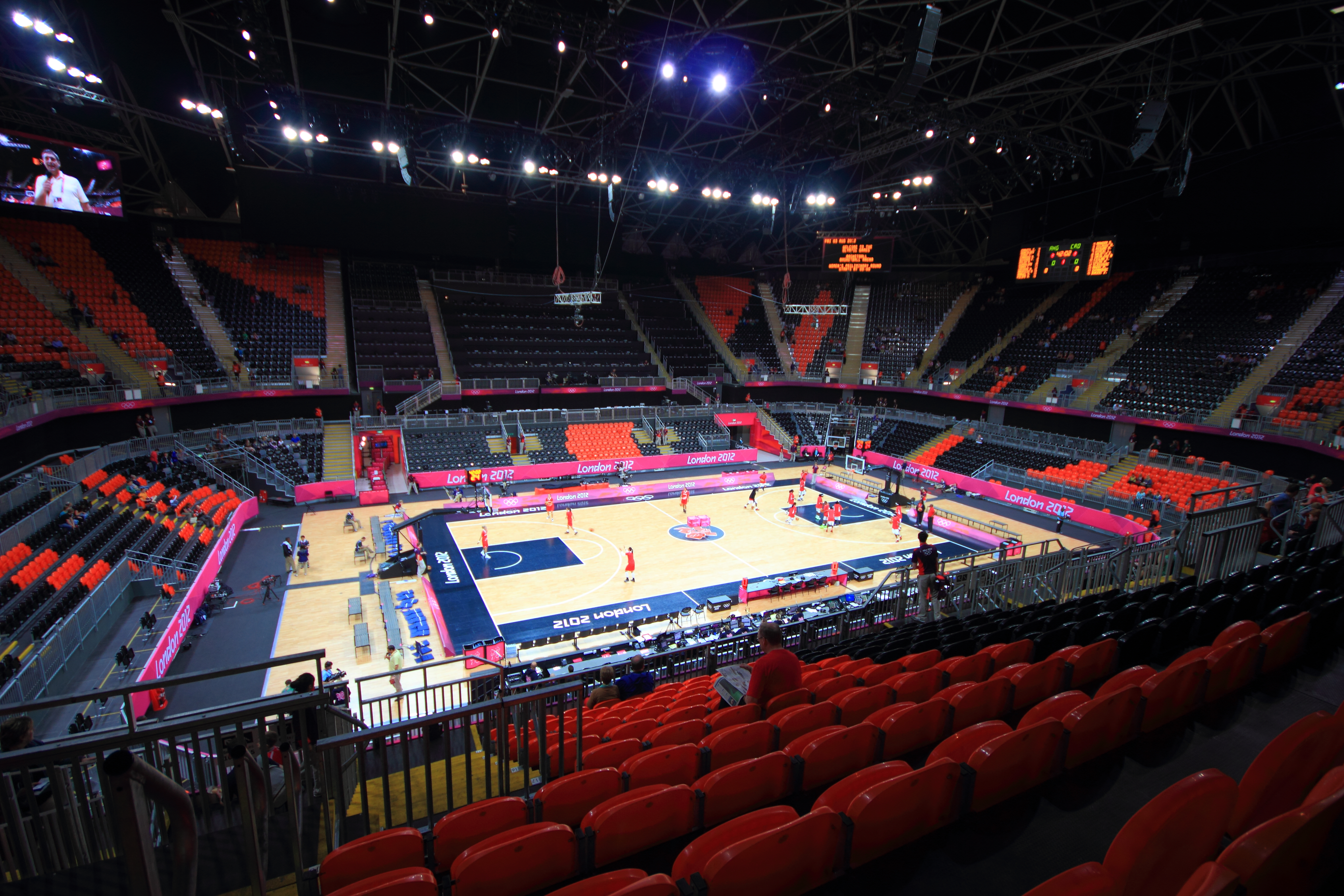 The temporary 12,000 seater Olympic Basketball Arena for London 2012